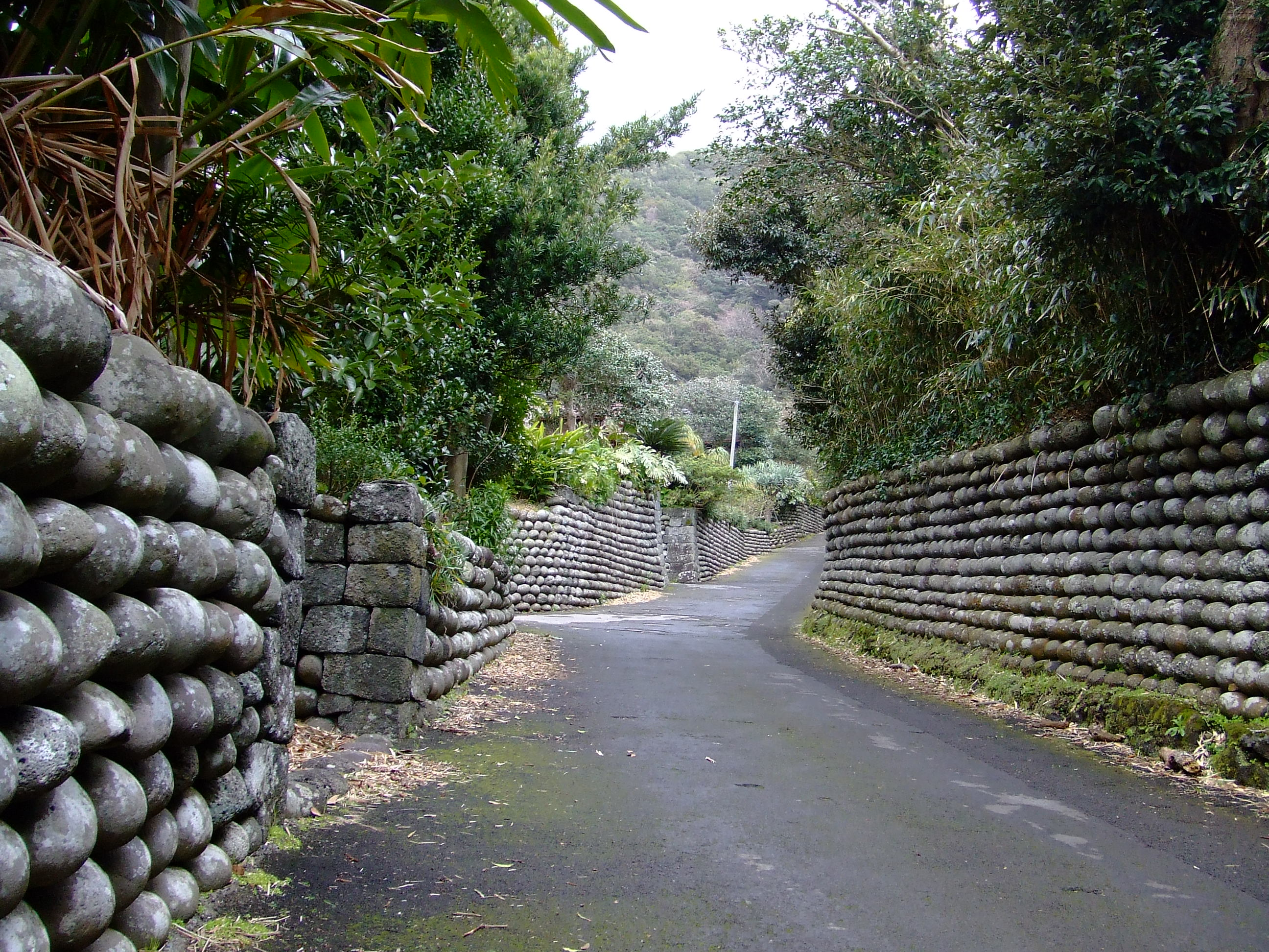 Tamaishigaki walls built by exiles on Hachijo-jima in Japan. I took the photo with a digital camera on 20th March 2007.